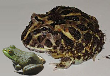 Size comparison of a Beelzebufo ampinga and an American bullfrog. A Cranwell's horned frog is used as a stand-in for the extinct Beelzebufo. I made it myself, using File:Cranwell's horned frog side.jpg and File:American_Bullfrog_Rana_catesbeiana_Side_1800px.jpg for the models, and I pass on their gnu licensing.